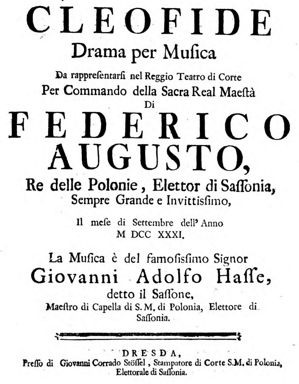 Johann Adolph Hasse - Cleofide - titlepage of the libretto - Dresden 1731